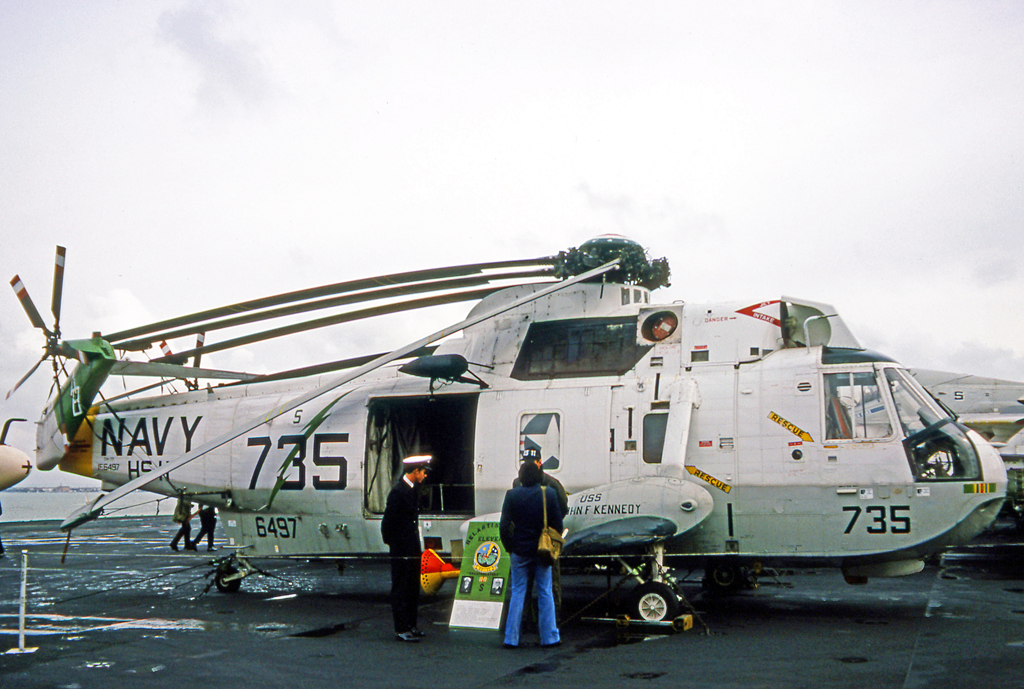 A U.S. Navy Sikorsky SH-3D Sea King (BuNo 156497) from Helicopter Anti-Submarine Squadron 11 (HS-11) "Dragon Slayers" aboard the aircraft carrier USS John F. Kennedy (CV-67). HS-11 was assigned to Carrier Air Wing 1 (CVW-1) aboard the John F. Kennedy for a deployment to the North Atlantic from 2 September to 9 November 1976.